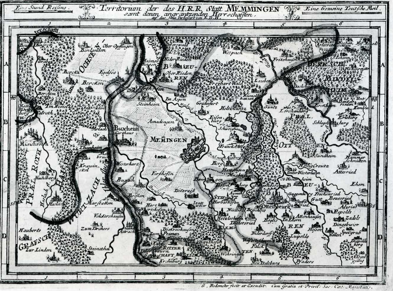 Early 18th-century map showing the territory of the Free Imperial City of Memmingen and adjacent states.